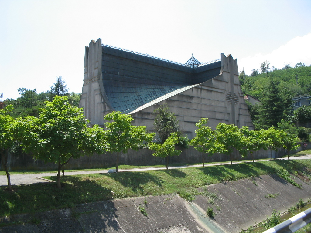 Roman Catholic Church from Orsova